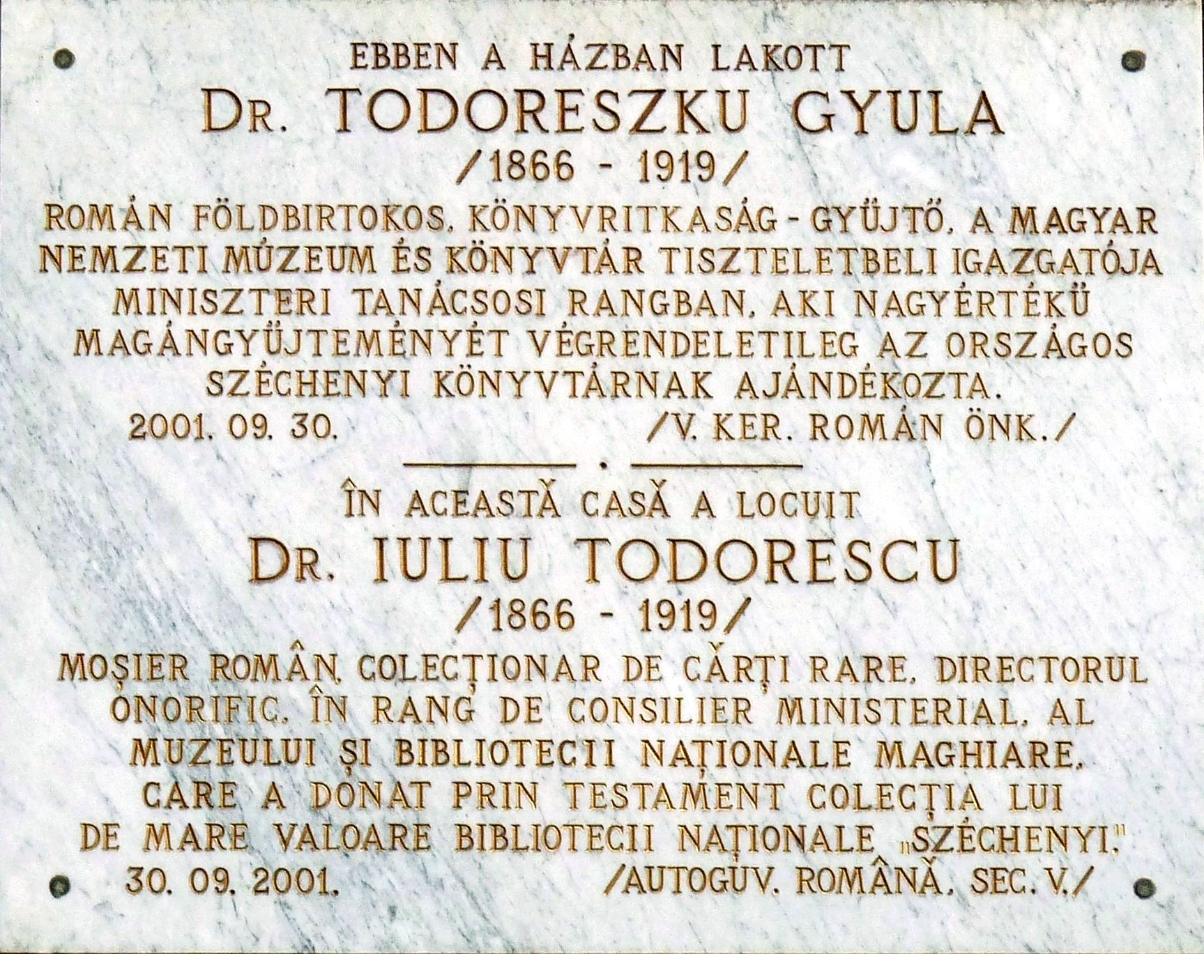 Commemorative plaque to Mr. Iuliu Todorescu (1866-1919) Romanian landowner, collector of rare books and generous donor, who bequeathed his valuable collection by will to the National Széchényi Library. It is affixed to the wall of the building where he lived. The plate was unveiled on September 30, 2001. (Budapest, District VIII, Népszínház Street Nr 36).